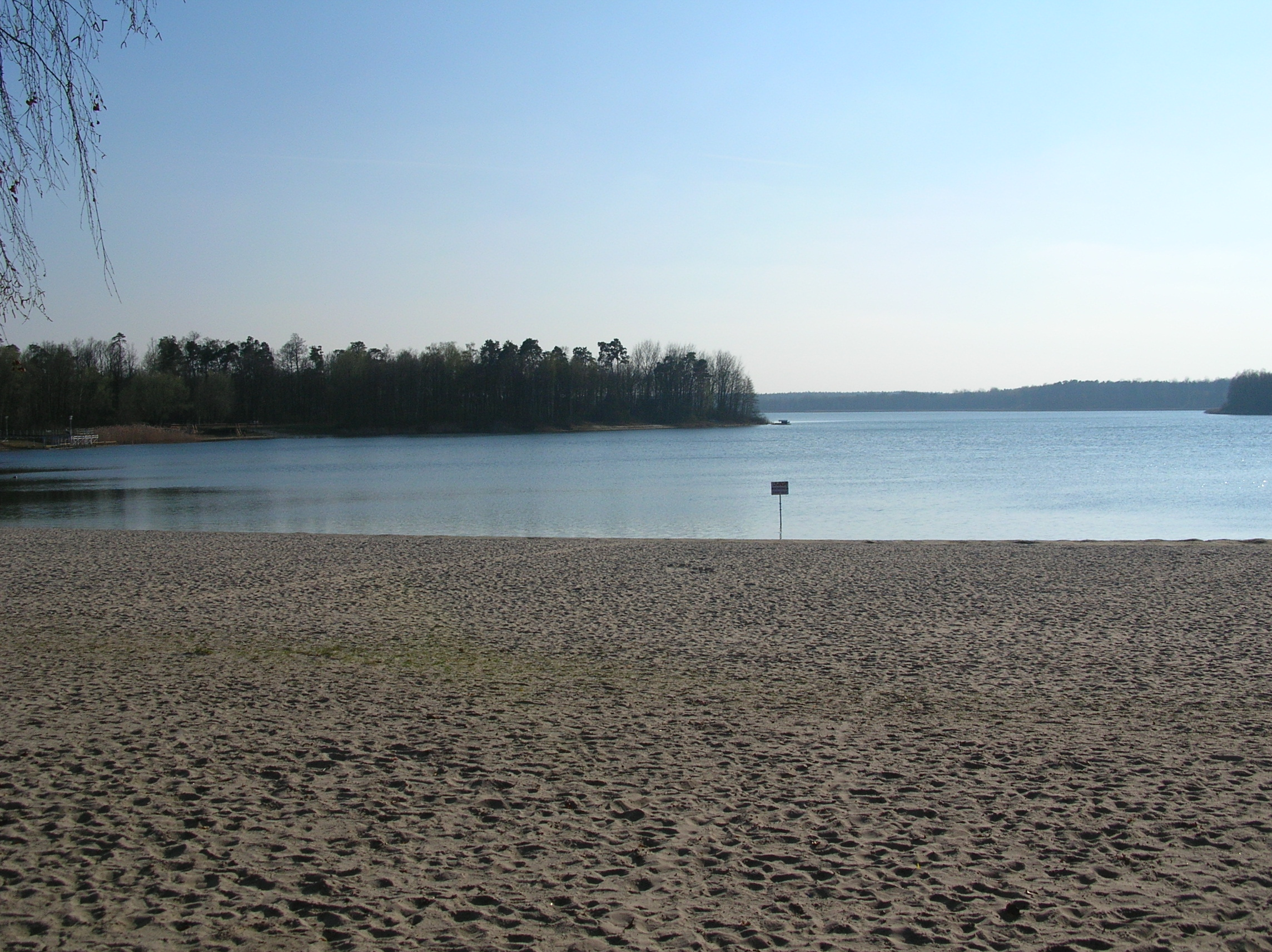 Ostrowskie Lake, beach in the Przyjezierze village